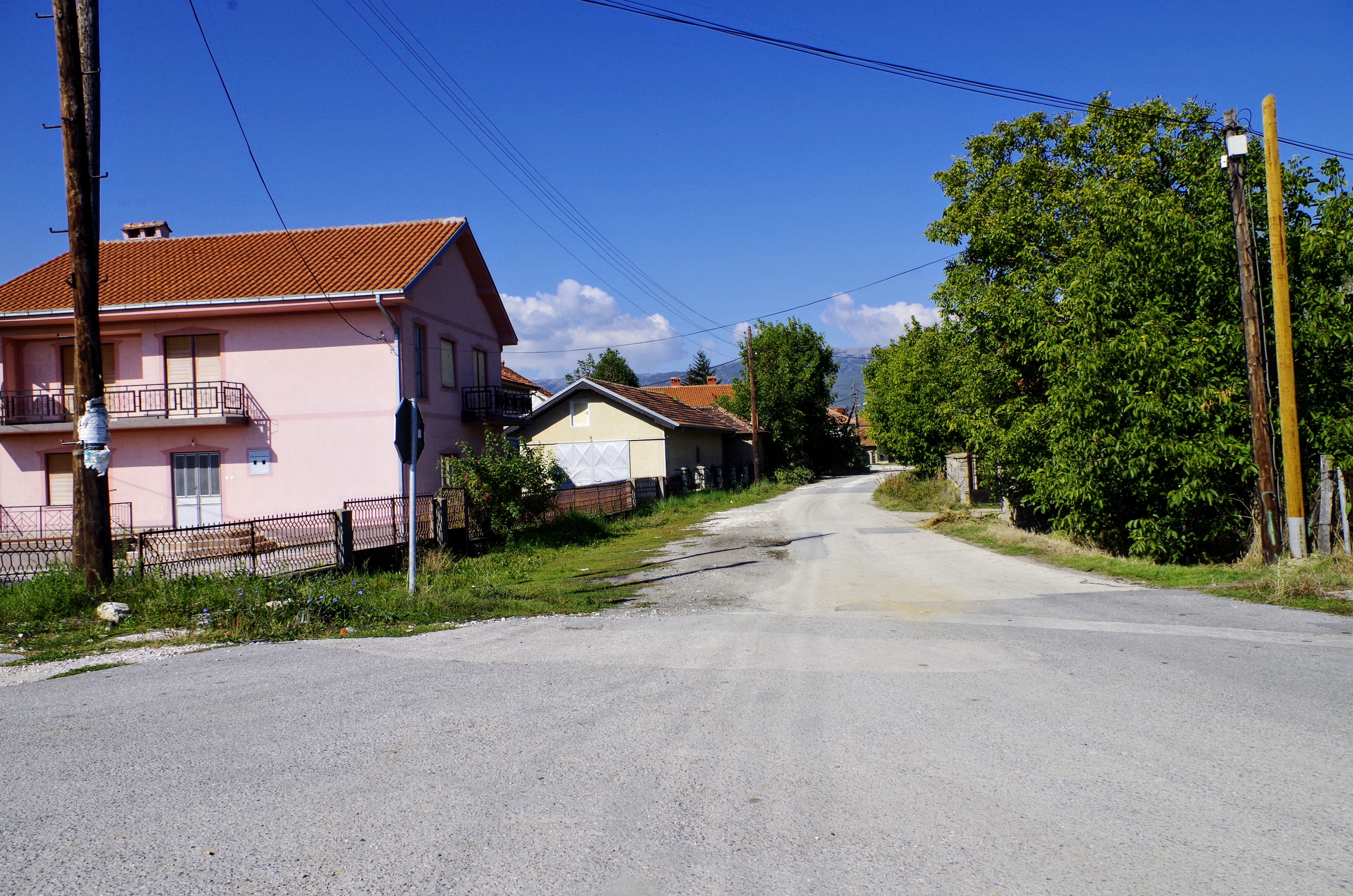 View of the village Drmeni